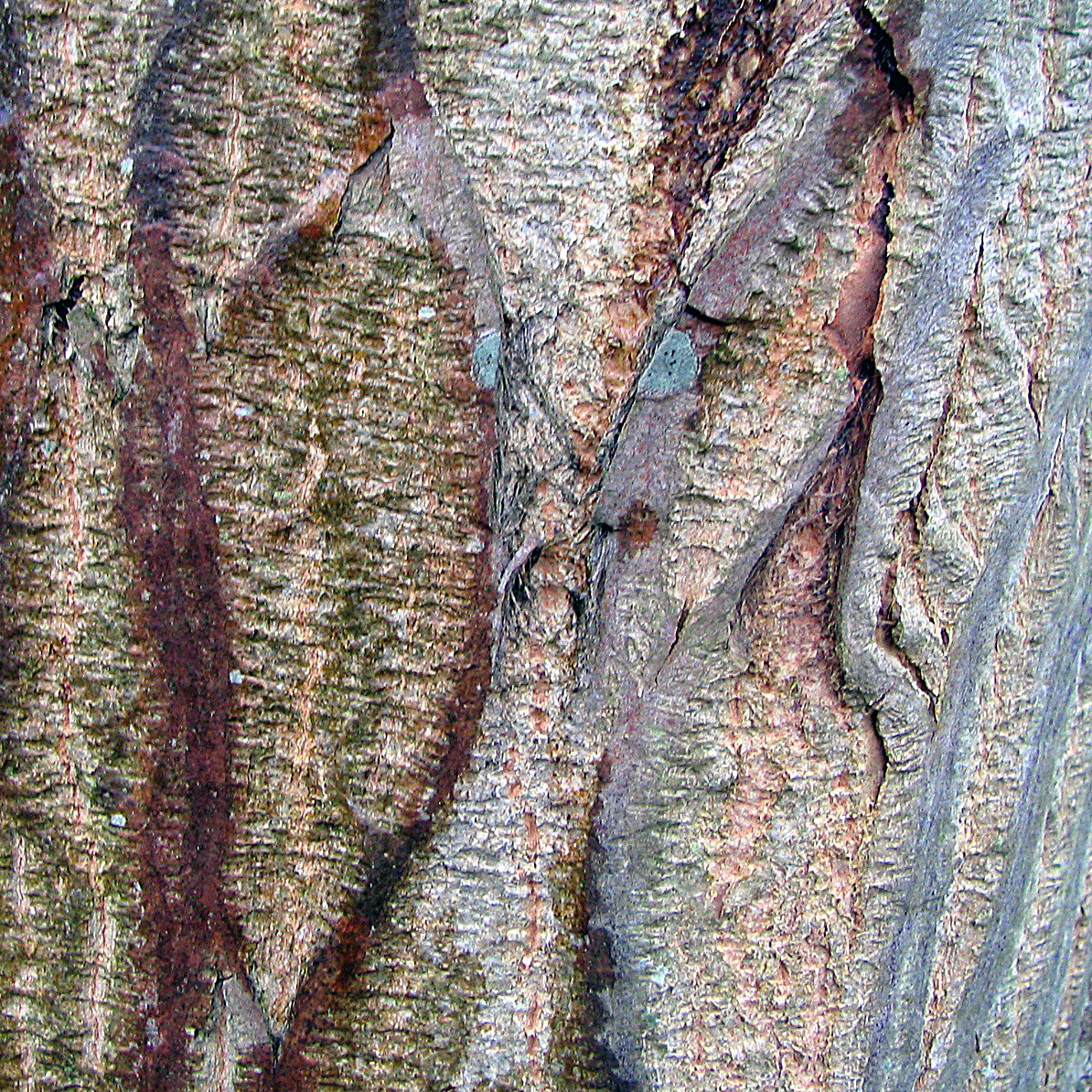 Pterocarya fraxinifolia, bark